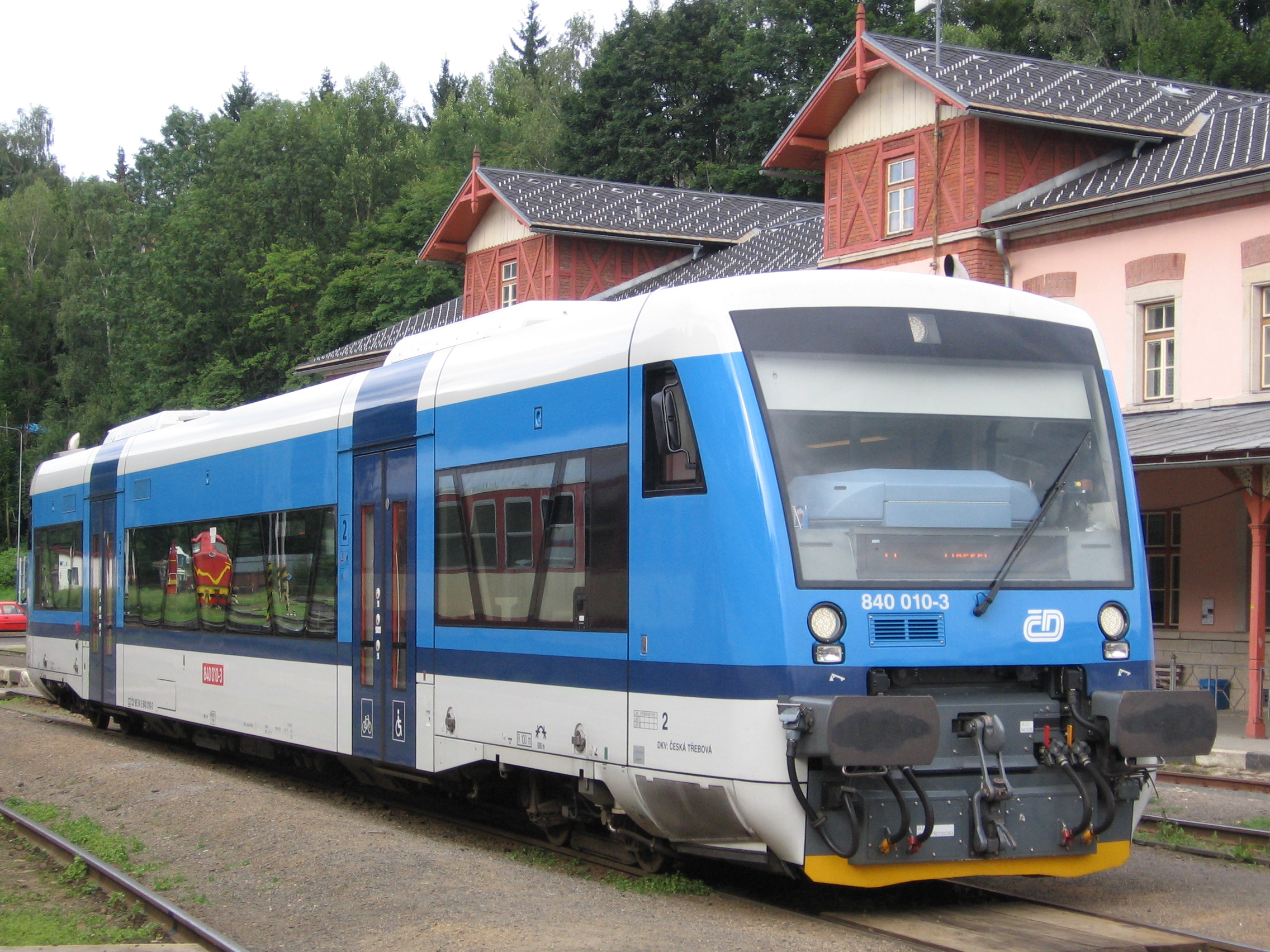 Railcar 840 010 ČD in Tanvald